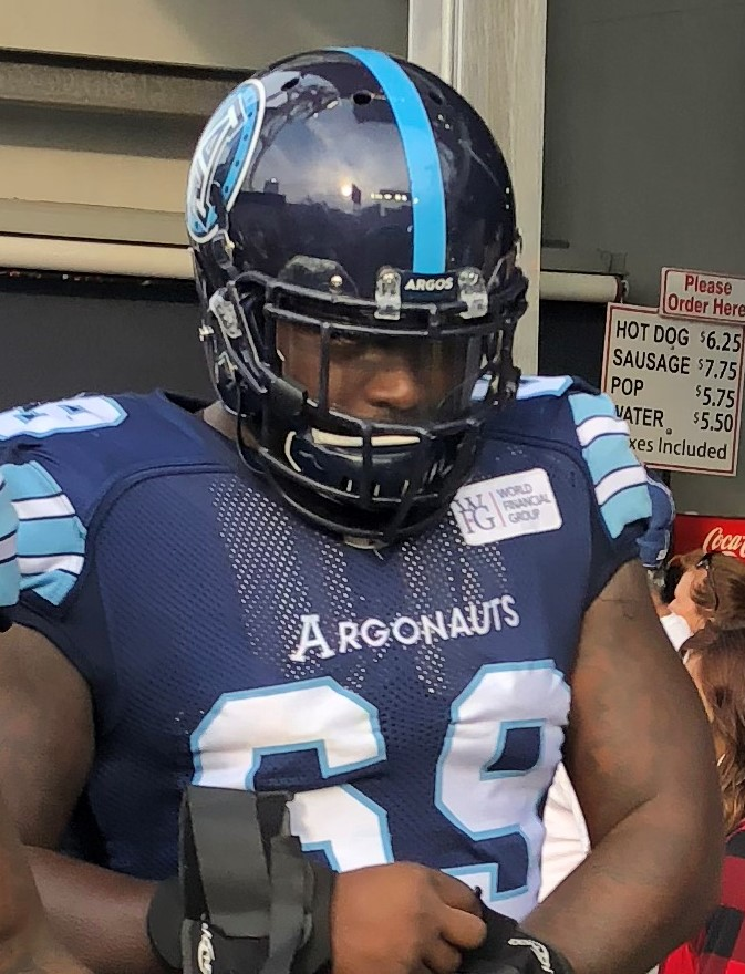 William Campbell, Offensive Lineman for the Toronto Argonauts.